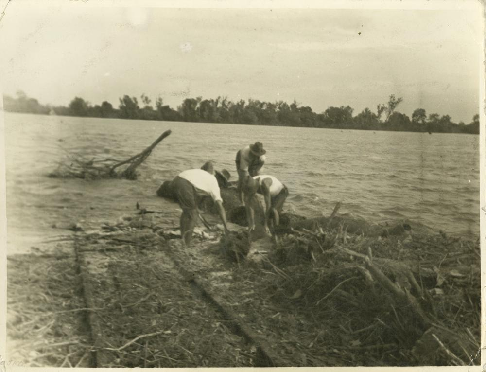 Burdekin River in flood in Ayr, north Queensland. Inscription on back of photograph reads: No. 1 Linesmen at work.